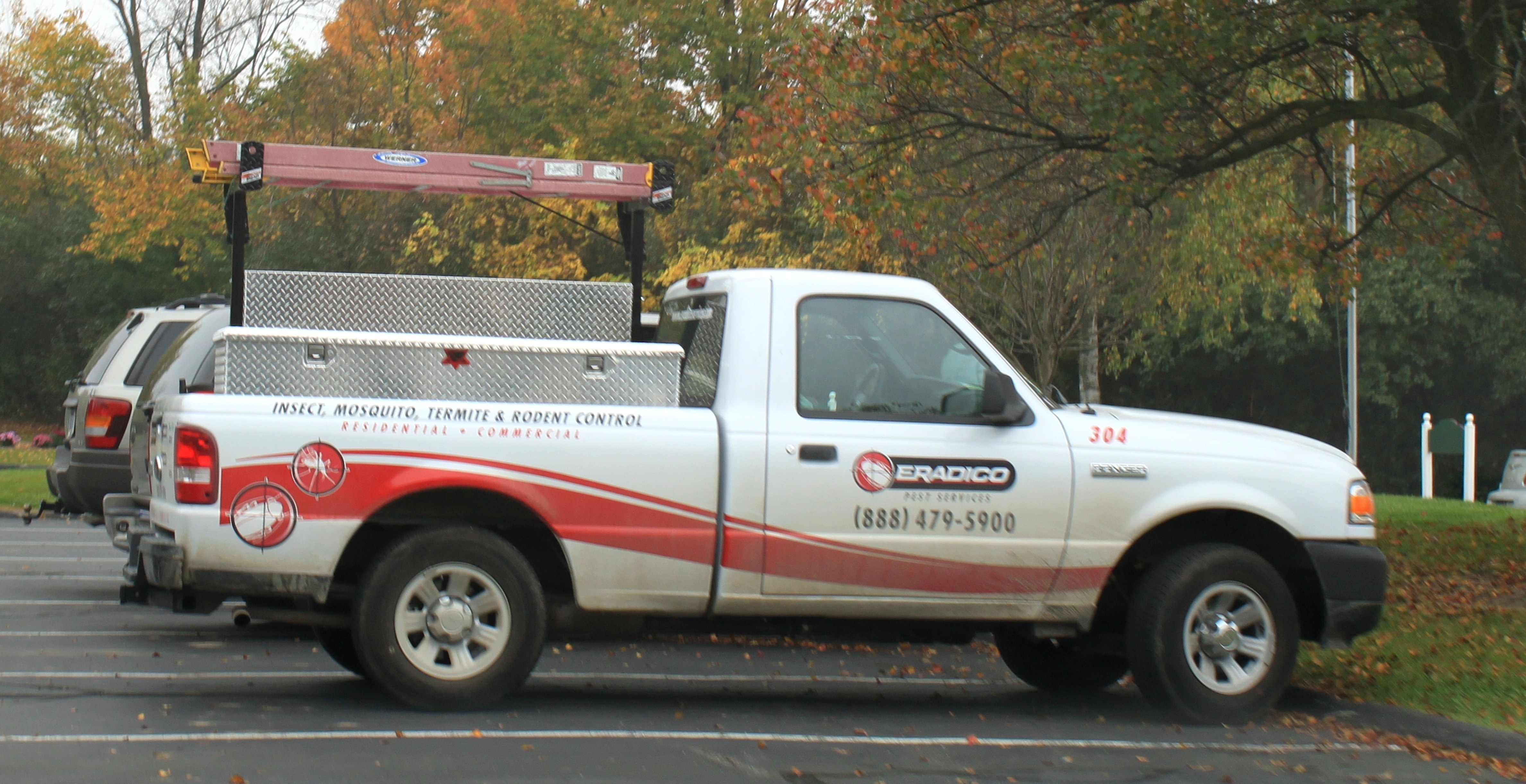 Eradico pest control service vehicle, Fairway Trails Apartment complex, 214 South Hewitt, Ypsilanti Township, Michigan.